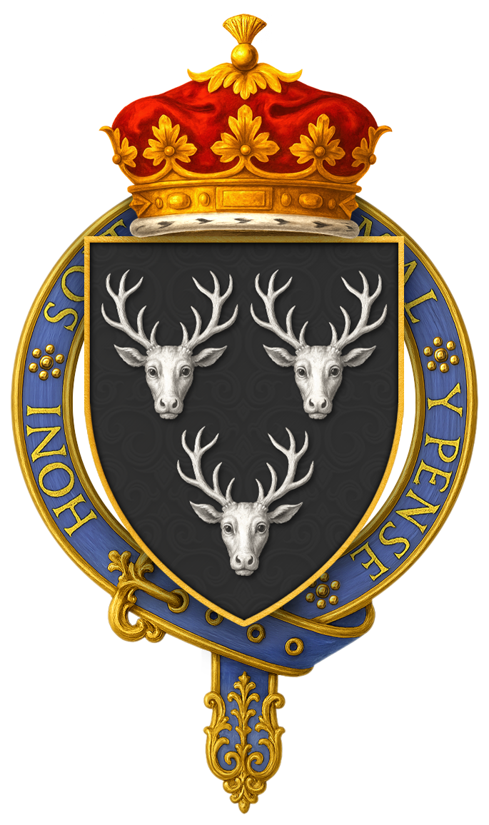 Coat of Arms of Andrew Cavendish, 11th Duke of Devonshire, KG, MC, PC, DL